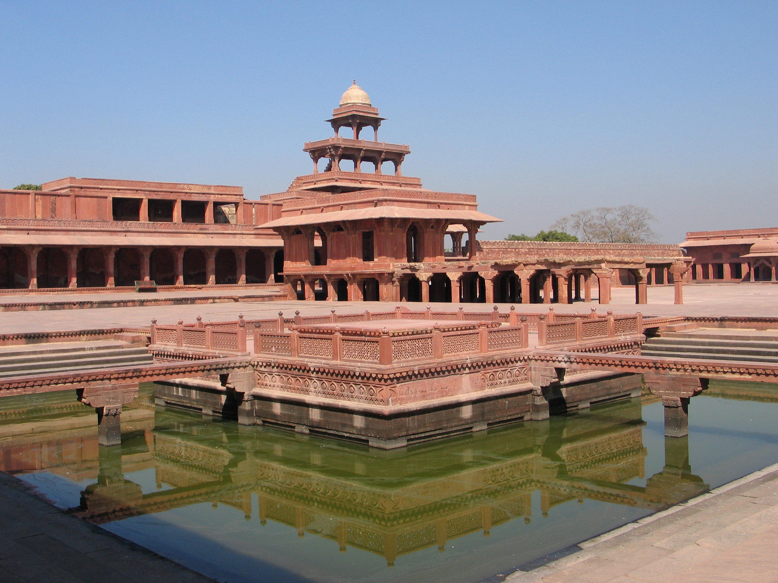 Anup Talao, Fatehpur Sikri, Uttar Pradesh, India